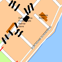 Map of Battle of Ryesgade, 1986